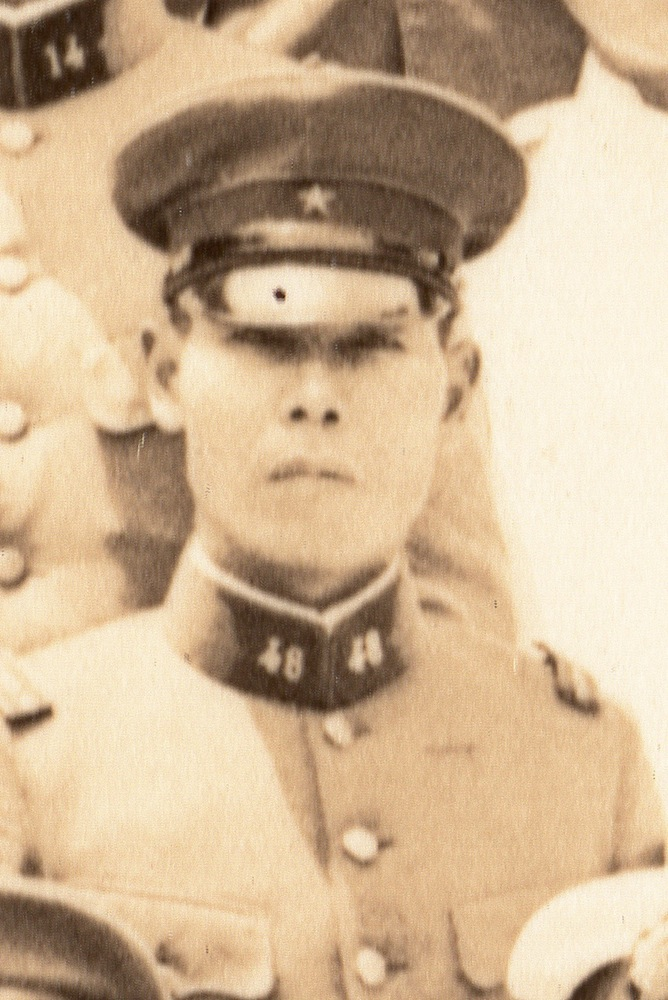 Colonel Hiroshi Matsumoto